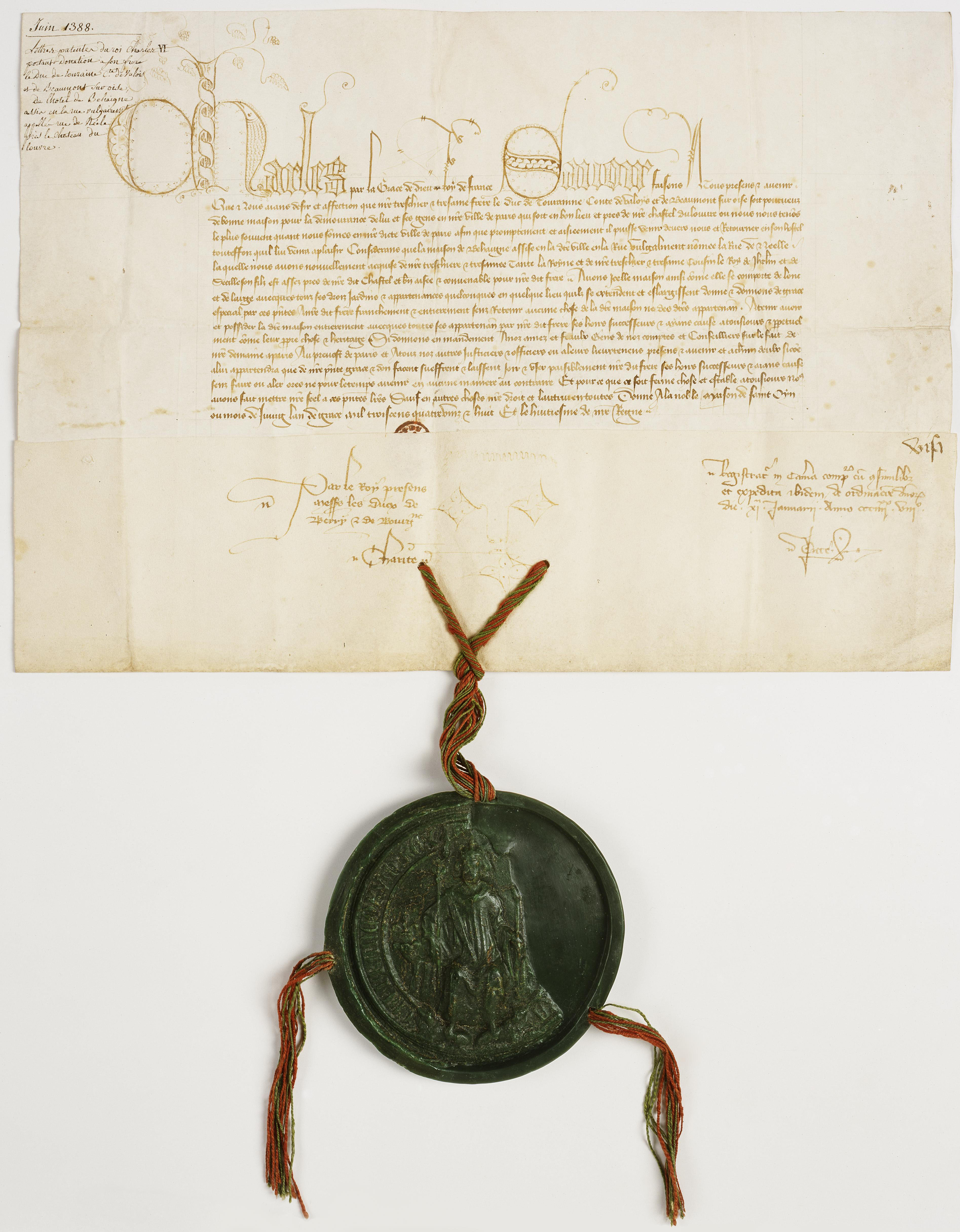 Donation of the tour de Nesle by Charles VI of France to his brother Louis, Duke of Touraine and Count of Valois, June 1st or 2nd, 1388.